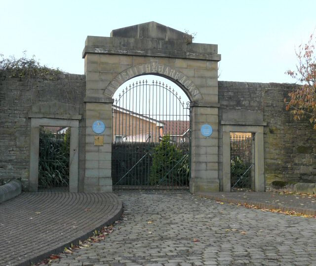 Ladysmith Barracks The original entrance to Ladysmith Barracks, built in 1845 to house cavalry regiments in times of civil unrest. From 1881-1958 it was the headquarters of the Manchester Regiment. It closed in 1960 and now contains a housing estate as can be seen by the washing hanging on the line in someone's back garden.